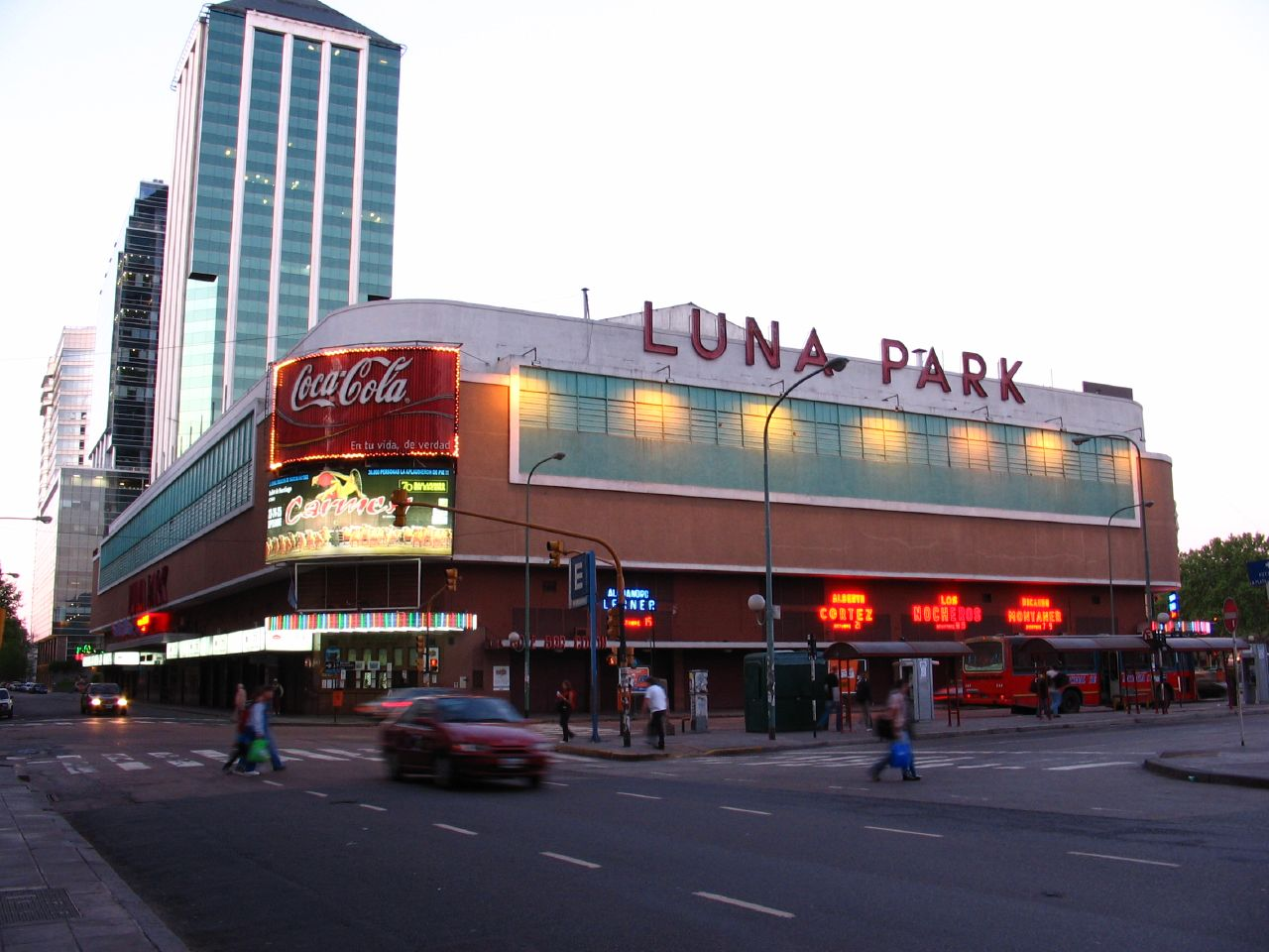 Luna Park stadium, Buenos Aires, Argentina. Date: October 10th, 2005 Source: Licensing: The author granted a GFDL license as requested by Usuario:Barcex